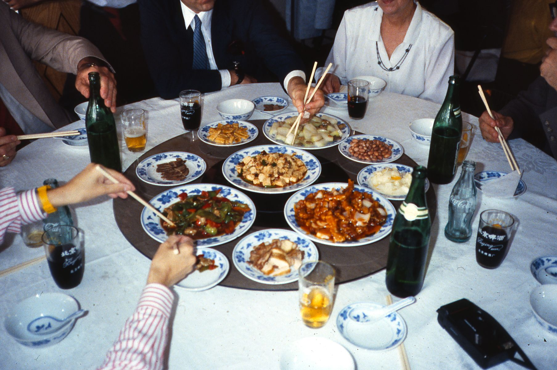 A turntable, or lazy susan, surrounded by diners holding chopsticks in a restaurant in China, 1987, with food and drinks.